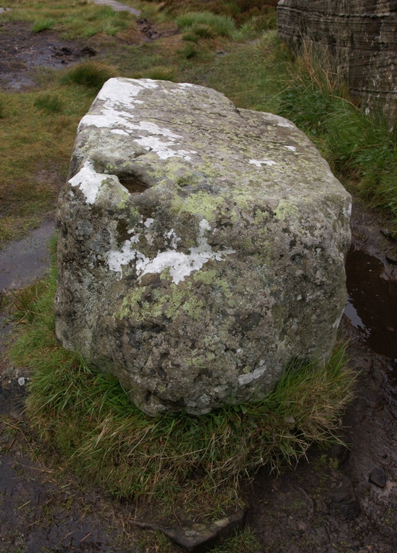 Dwarfie Stane, Hoy, Orkneys, Scotland. Possible entrance stone (view from the south).